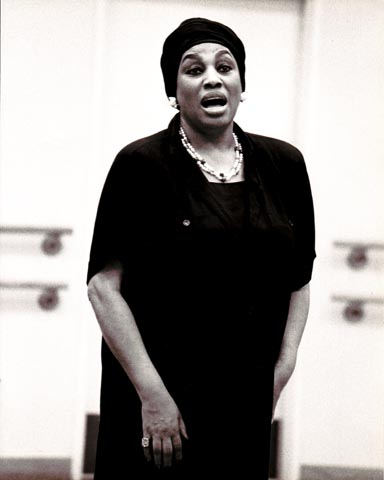 Leontyne Price teaching her Master Class for the Merola Opera Program in 1986. The Merola Opera Program is a San Francisco Opera training program for opera singers, coaches, and stage directors.